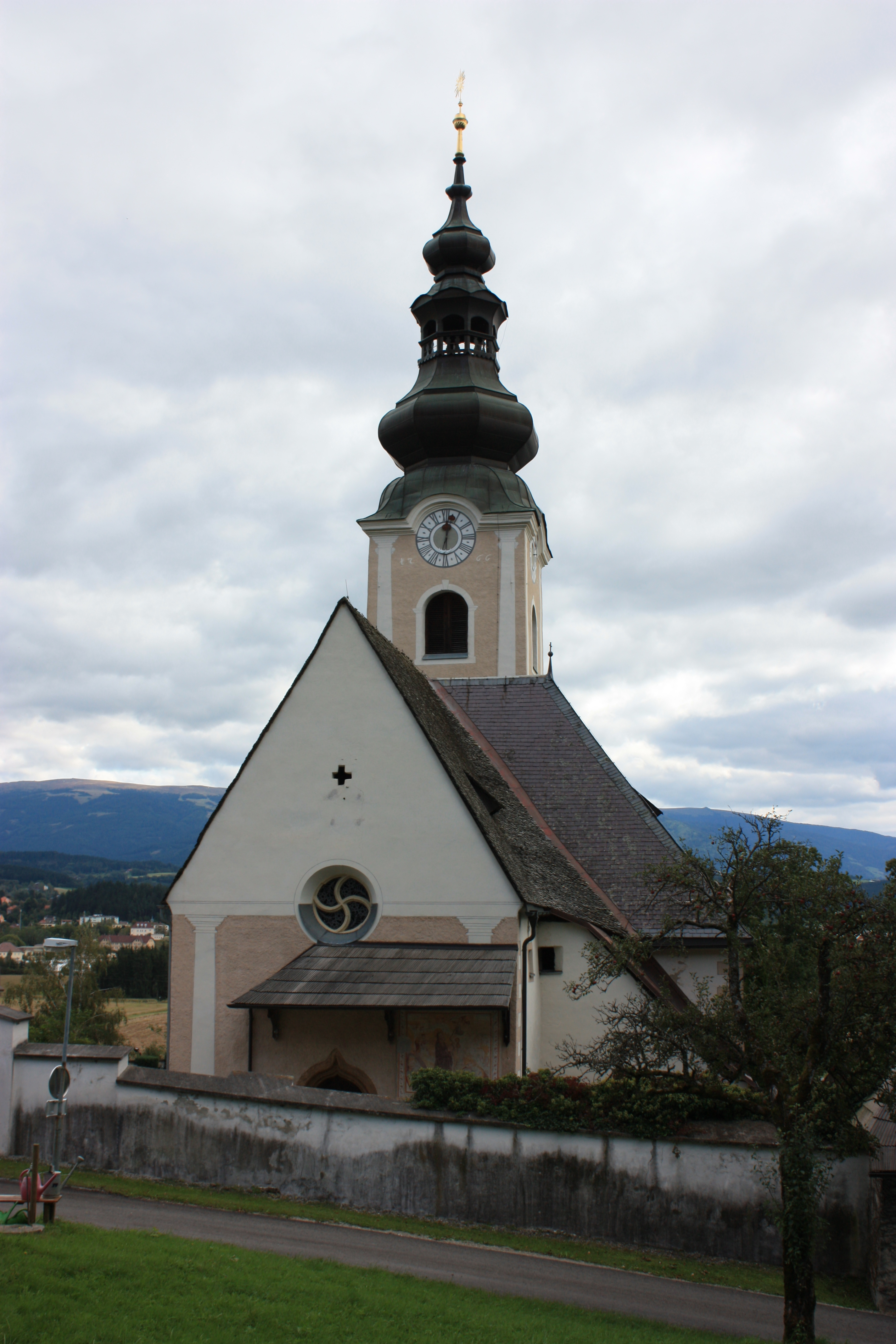 Parish church Locality:Sankt Stefan am Krappfeld Community:Mölbling